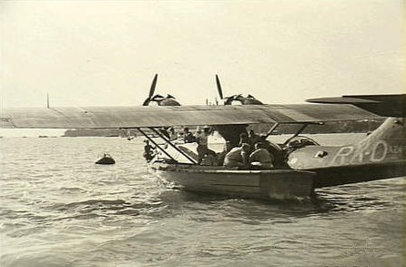 Darwin, NT. Survivors disembarking from a Consolidated Catalina aircraft, code RK-0, serial no. A24-95, of No. 42 Squadron RAAF, into a RAAF launch, no. 011-12, on arrival at Darwin after they had been picked up from a Japanese hospital. The survivors were from the United States Army Air Force flying in a Douglas C47 transport aircraft which crashed into the sea. The survivors, washed ashore on Jamdena Island in the Tanimbar Group, were Captain Otto Leipske of Waukesha, Wisconsin, pilot; Lieutenant Howie Crothers of Little Rock, Arkansas, 2nd pilot; Captain John Rodof of Tulsex, Oklahoma, a passenger; Sergeant Frank Termin of Borger, Texas, radio operator; and Corporal Eugene Janicker of Cameron, Texas, an engineer.